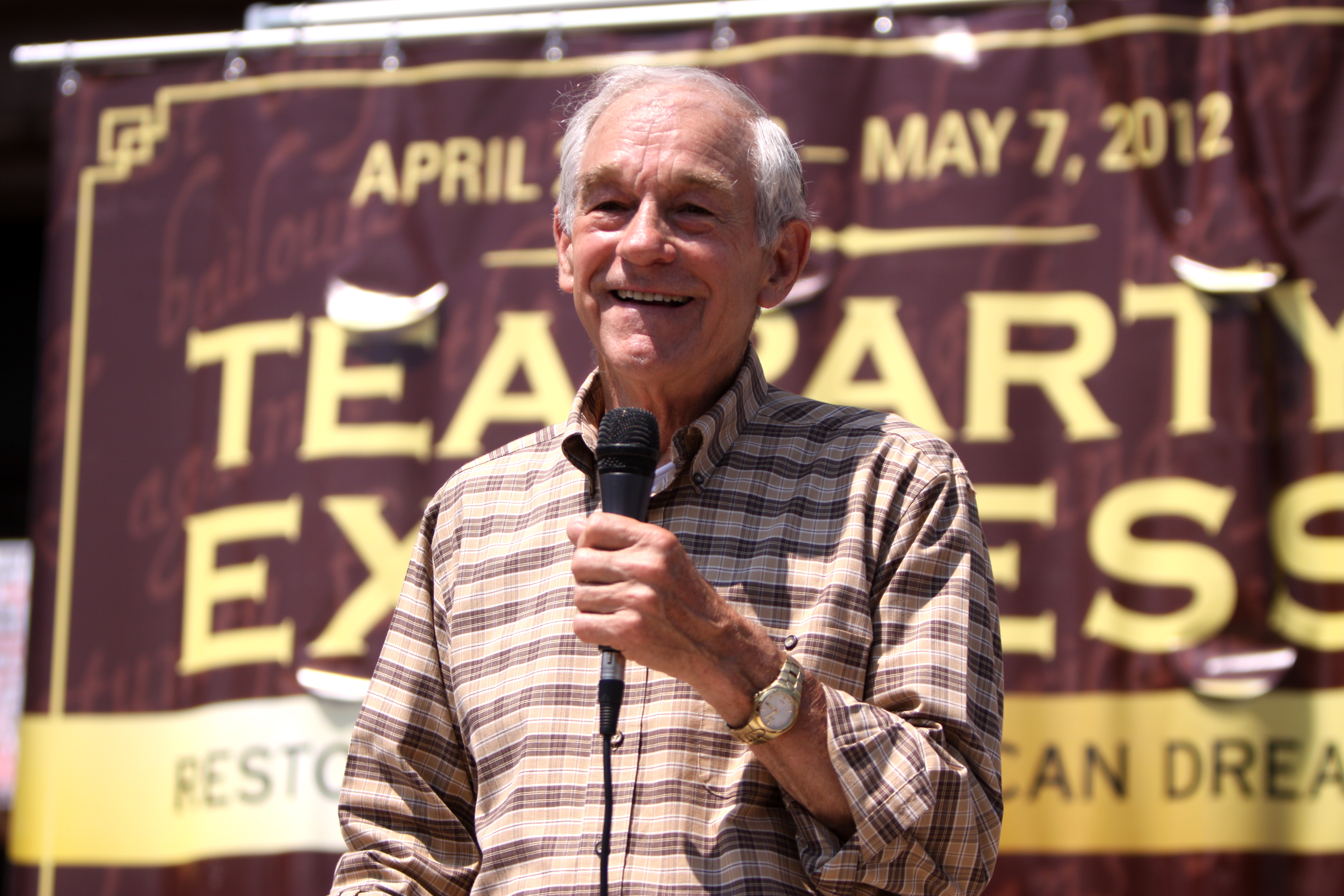 Ron Paul speaking to Tea Party Express supporters at a rally in Austin, Texas.